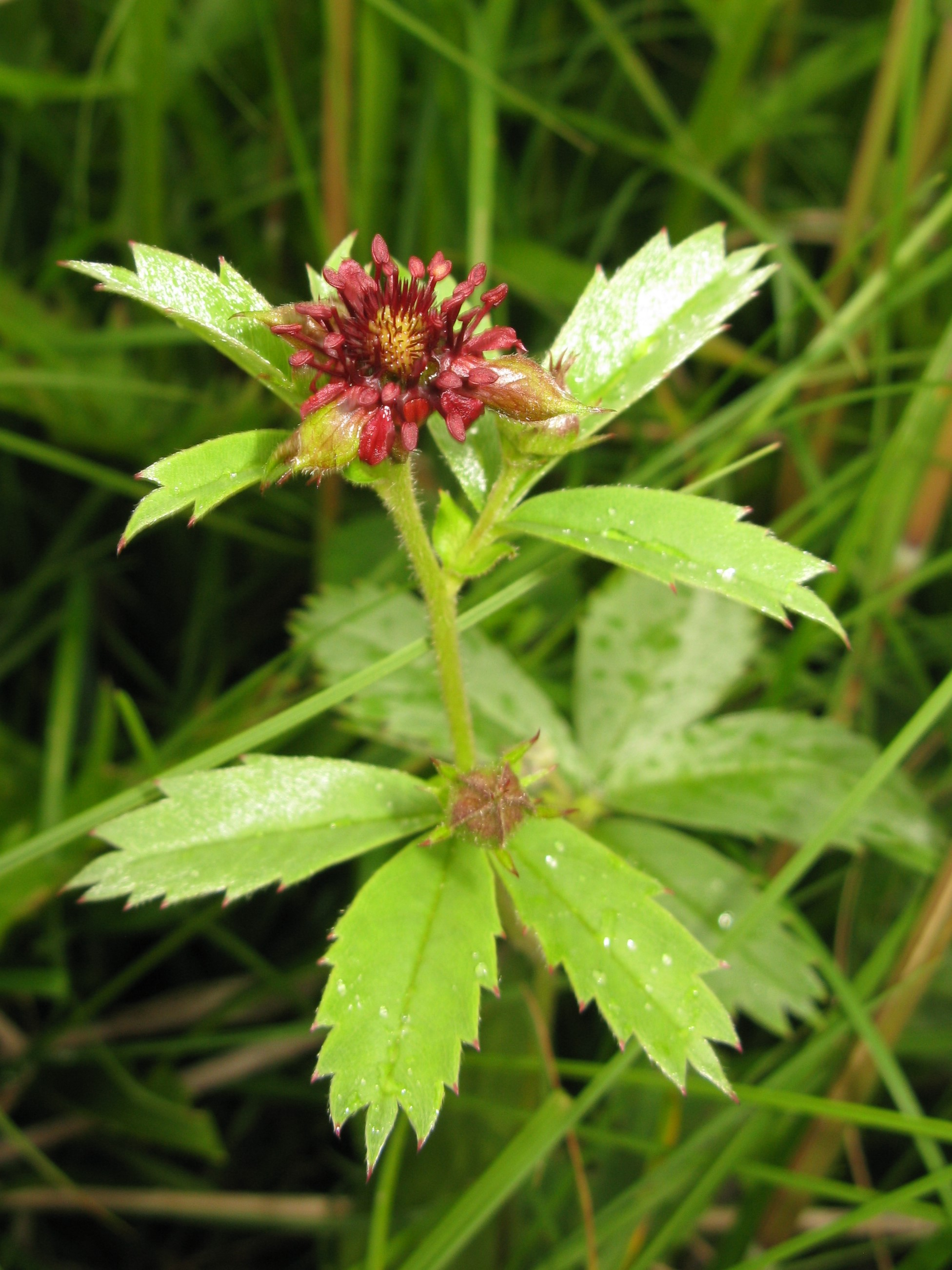 Comarum palustre, Oze-ga-hara, Fukushima pref., Japan